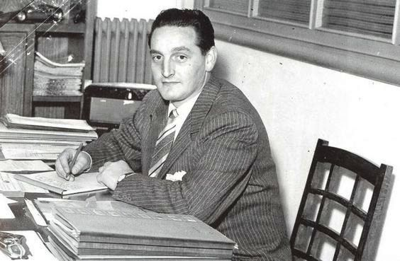 Italian automotive engineer Luigi Segre, manager of the Ghia bodybuilder since 1953.